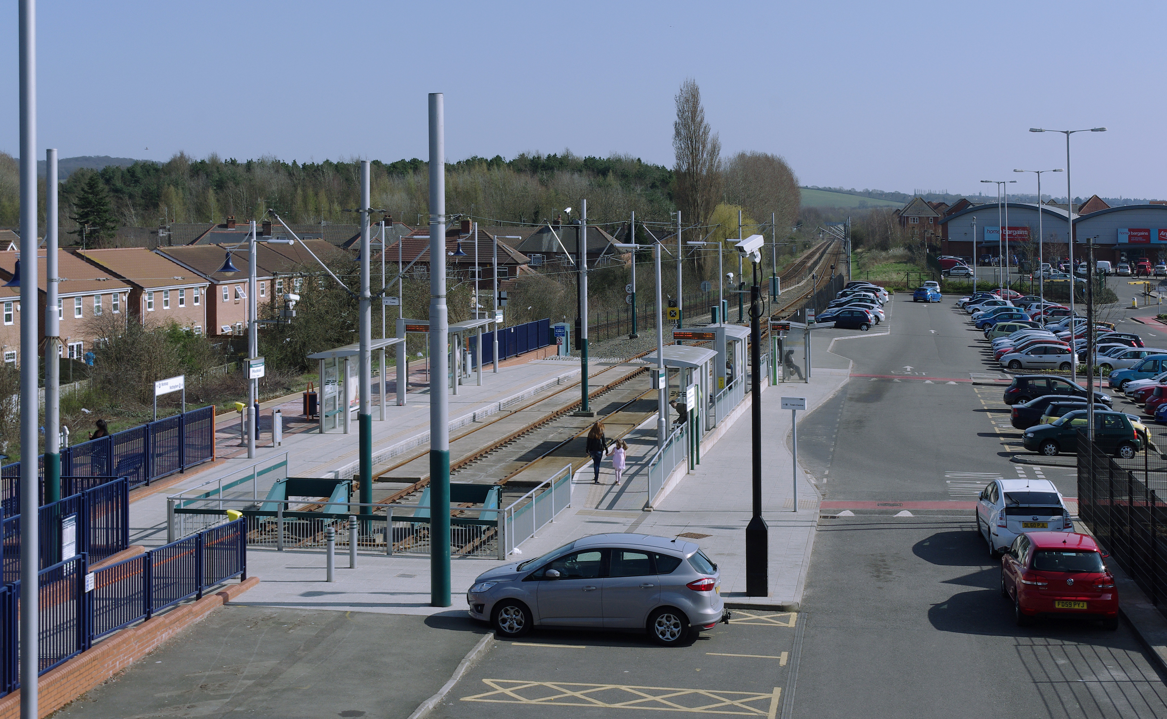 Looking down on Hucknall station from the Station Road bridge.